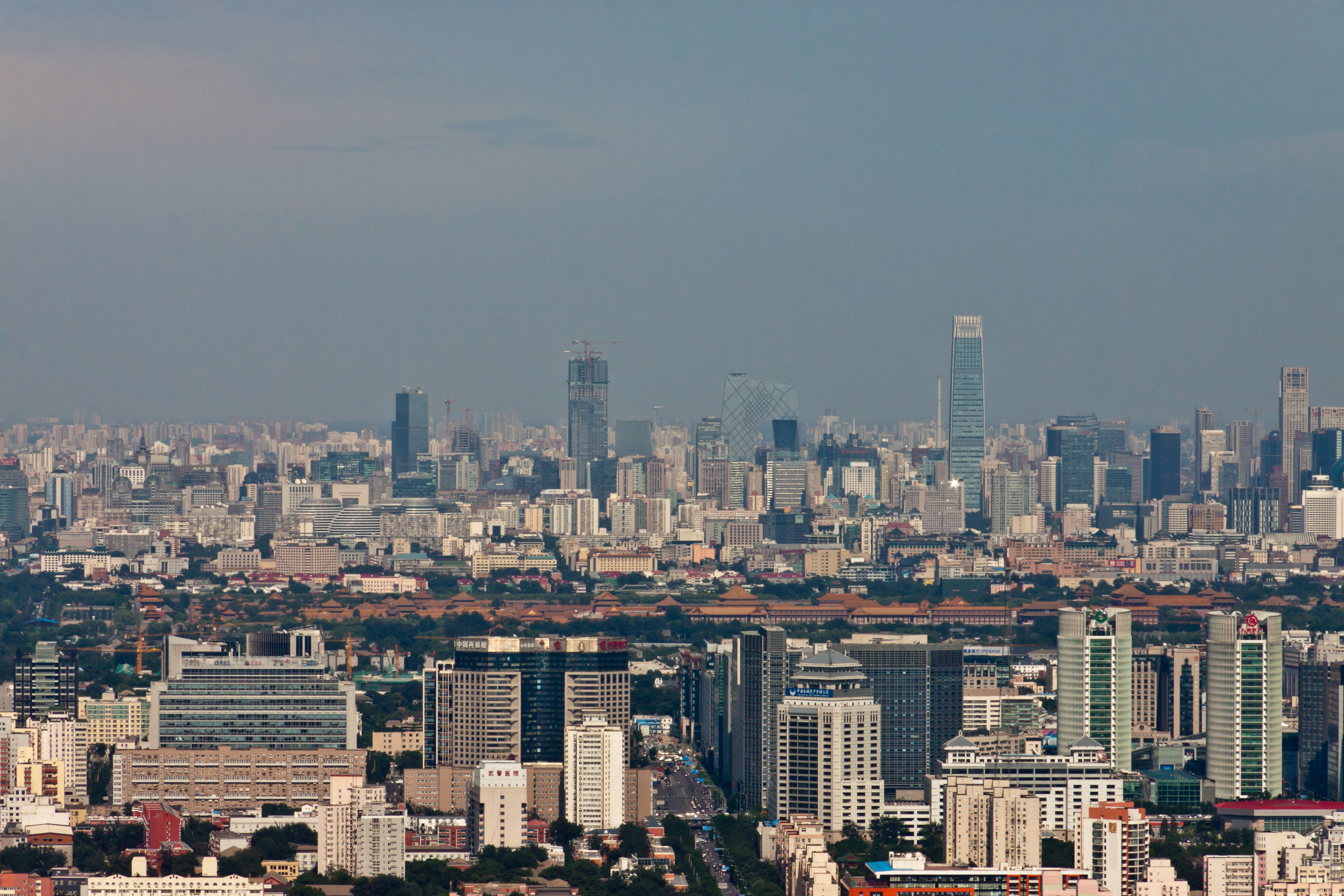 View of Beijing, China.